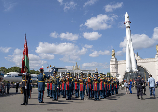 Участники XII Международного военно-музыкального фестиваля «Спасская башня» прошли торжественным парадом по ВДНХ